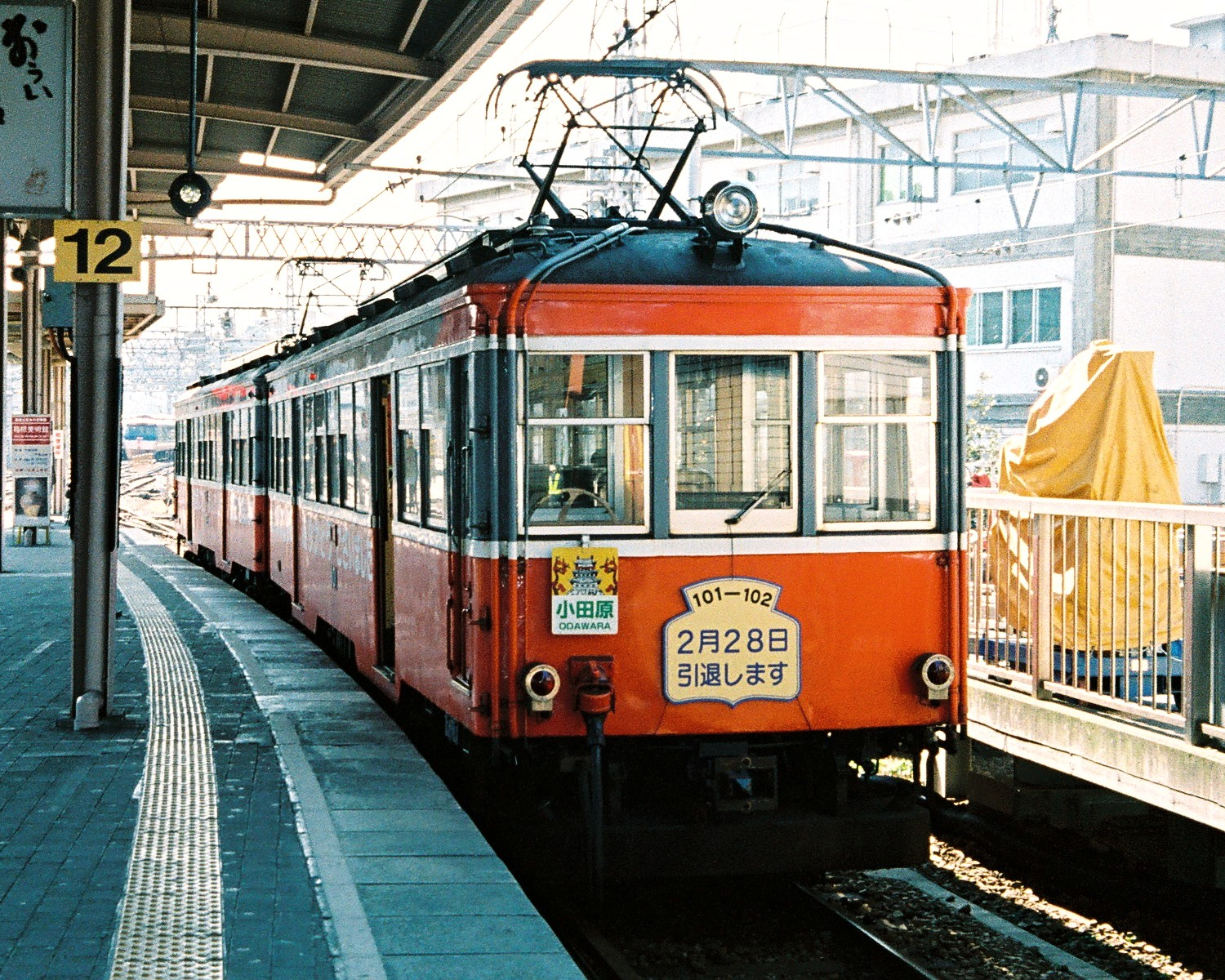 HAKONE TOZAN RAILWAY Mc101-Mc102.